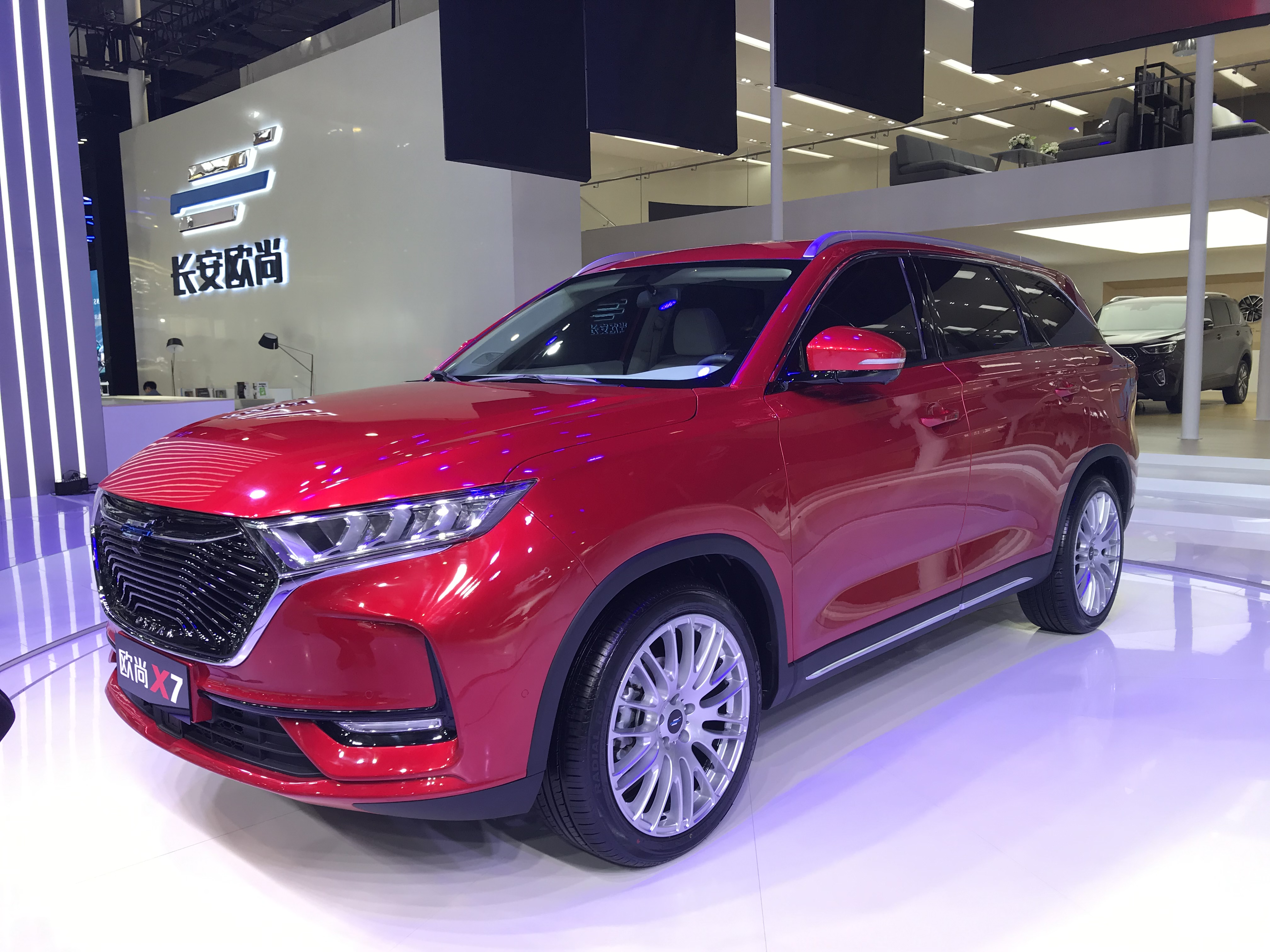 Oushan X7 front